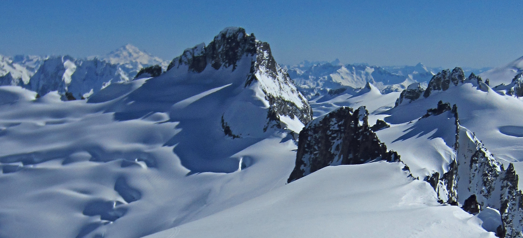 Klawatti Peak seen from Austera Peak. North Cascades National Park